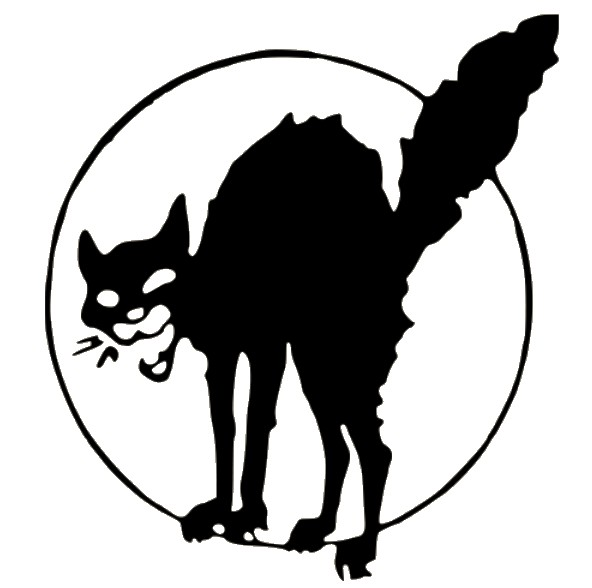 It's public domain, because the copyrights holder (union Industrial Workers of the World, which symbol it is) wants it to be free. Vide: Rebel Voices. An I.W.W. Anthology, ed. Joyce L. Kornbluh, 1964